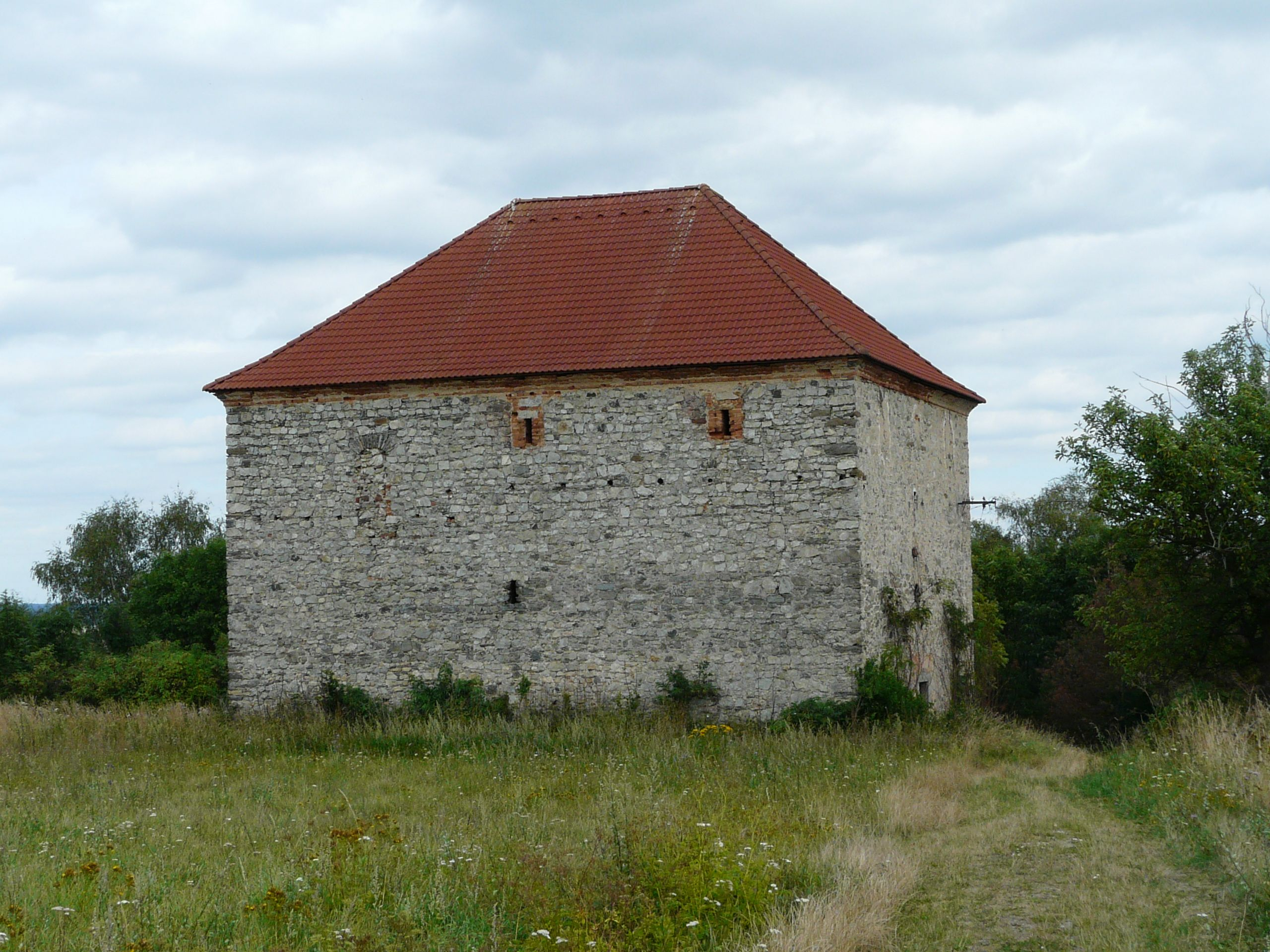 Stronghold in Dráchov